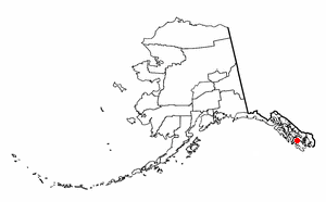 Adapted from Wikipedia's AK borough maps by Seth Ilys.